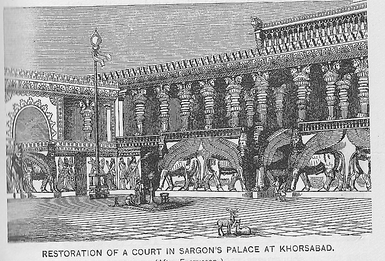 Drawing of a Court in Sargon’s Palace at Dur Sharrukin (Khorsabad, NE Iraq)